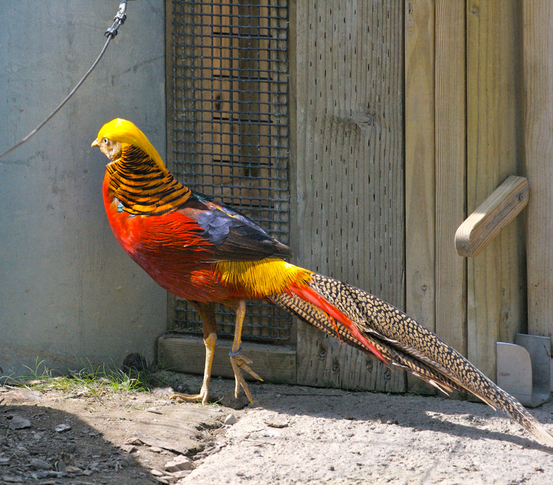 A male Golden Pheasant at Columbus Zoo, Powell, Ohio, USA.